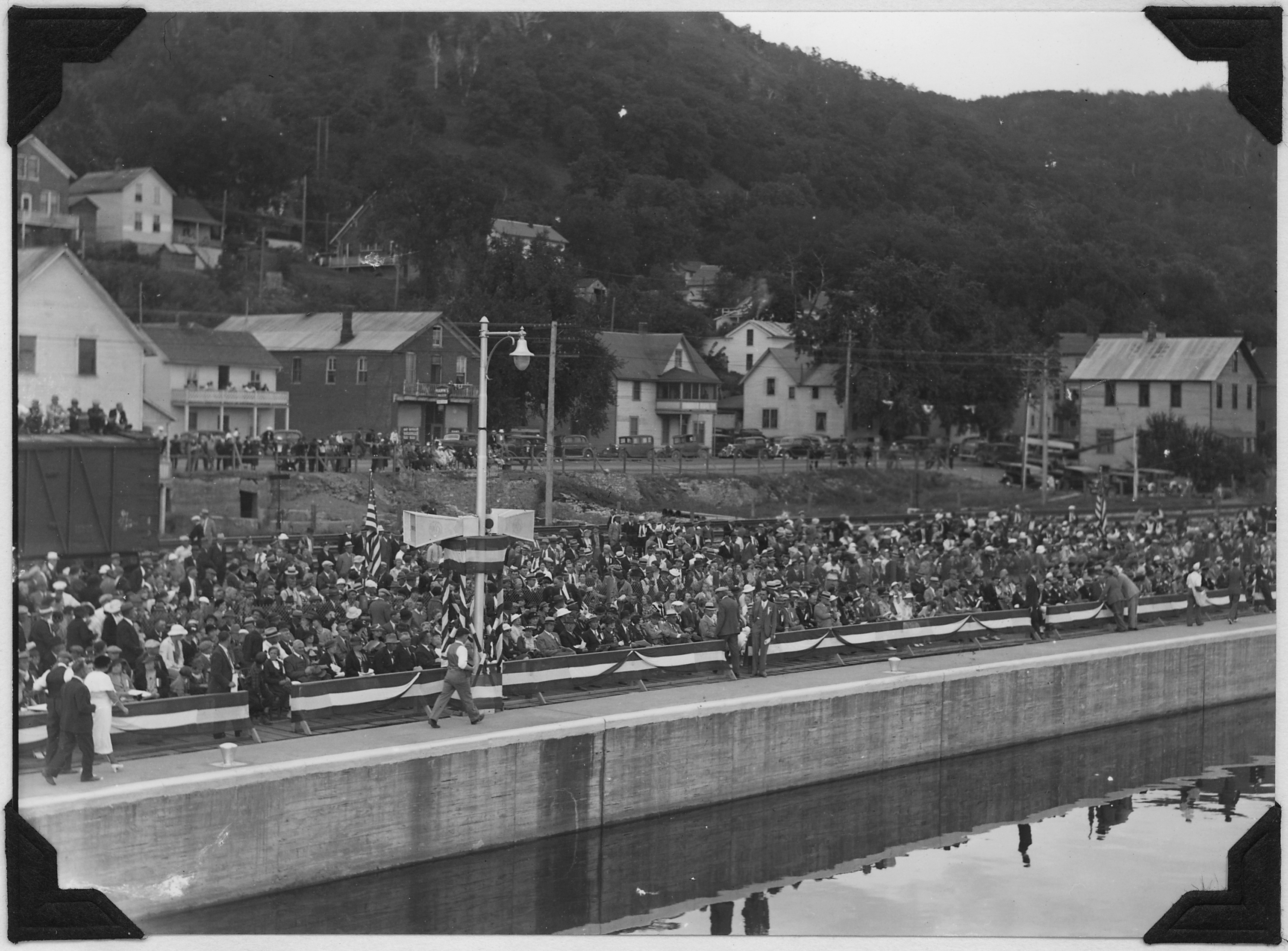 Scope and content: at Lock and Dam No. 4 on the Mississippi River